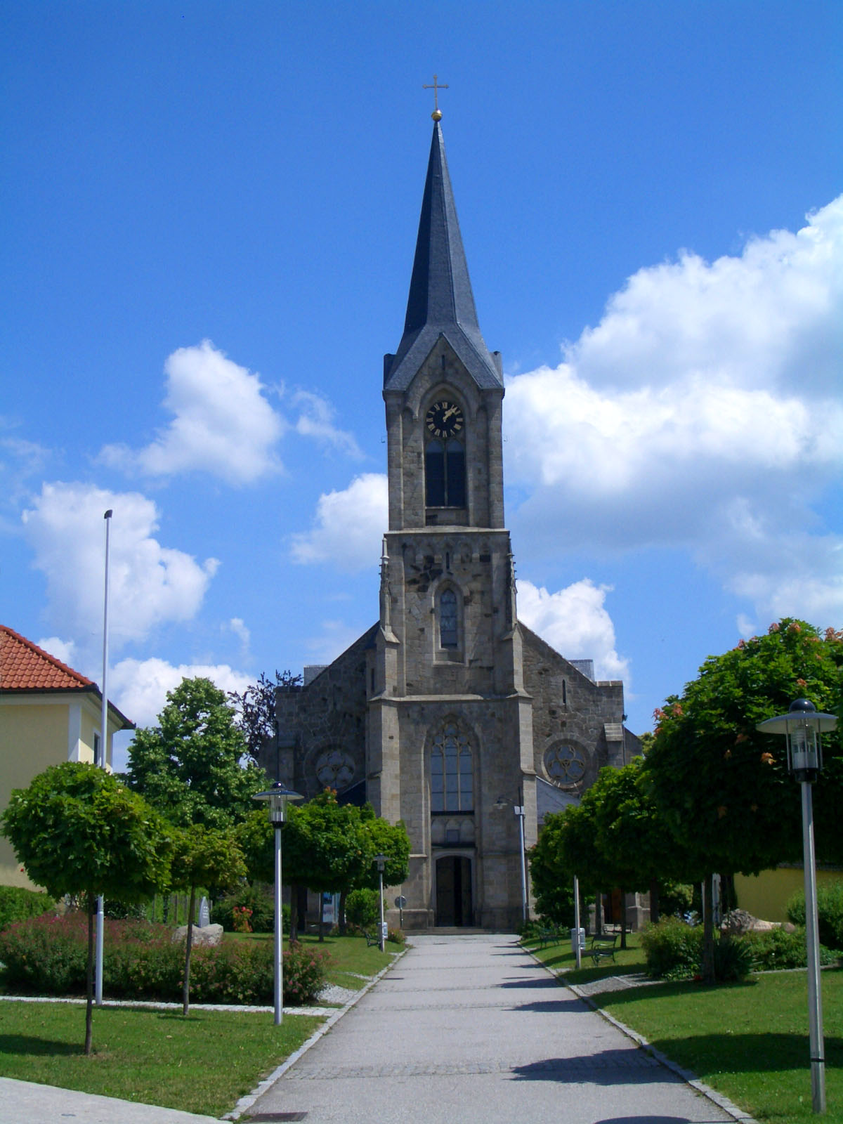 St.-Anna-Church in Pregarten